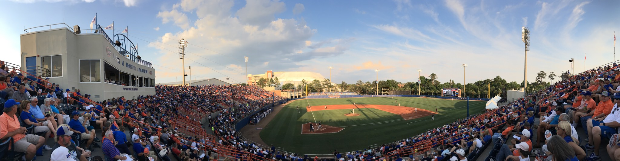 Florida versus Georgia, McKethan Stadium Attendance: 5,279 Final Score: 7–6, Florida